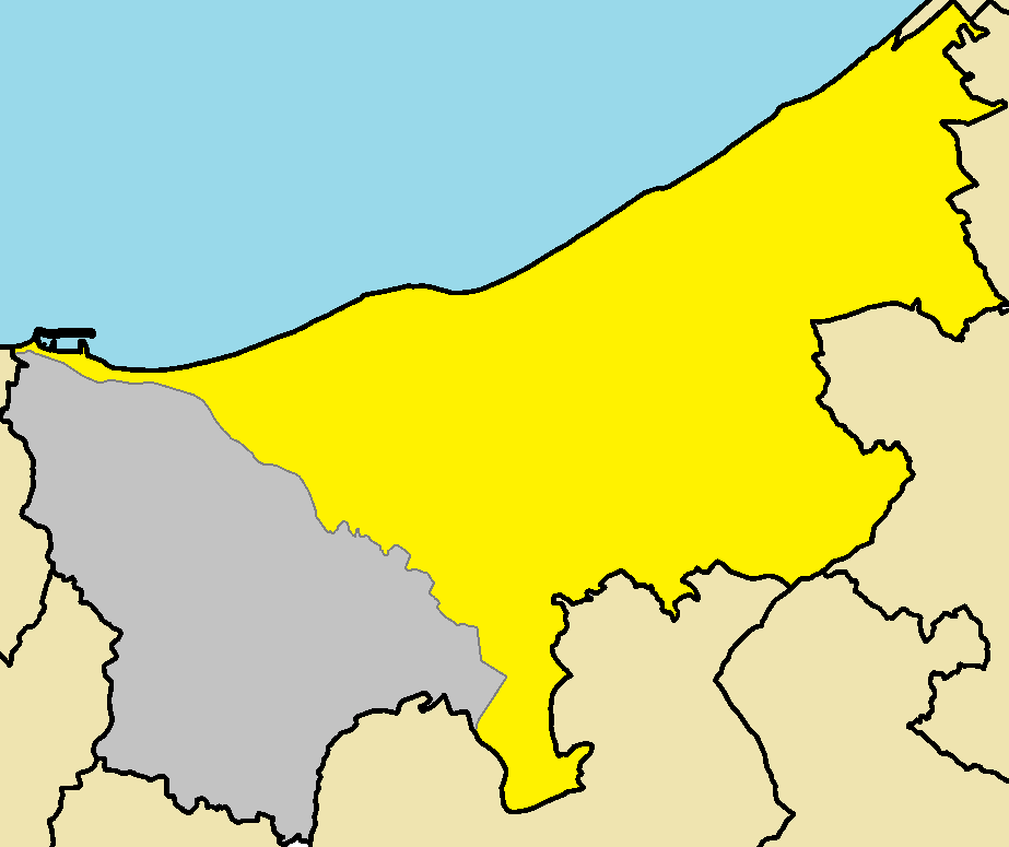 Polis Chrysochous in Polis Municipality.